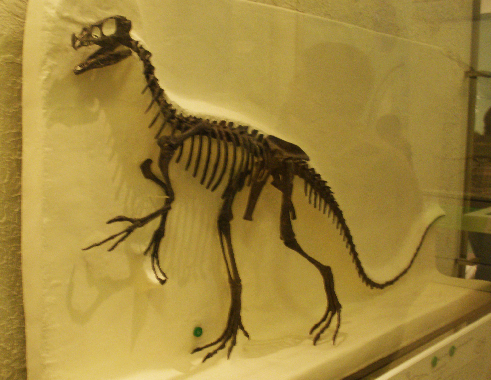 Skeleton of Ornitholestes hermanni, a fossil theropod DateApril 2008Sourcetook the foto on the "American Museum of Natural History" in New YorkAuthorGhedoghedoPermission (Reusing this file)